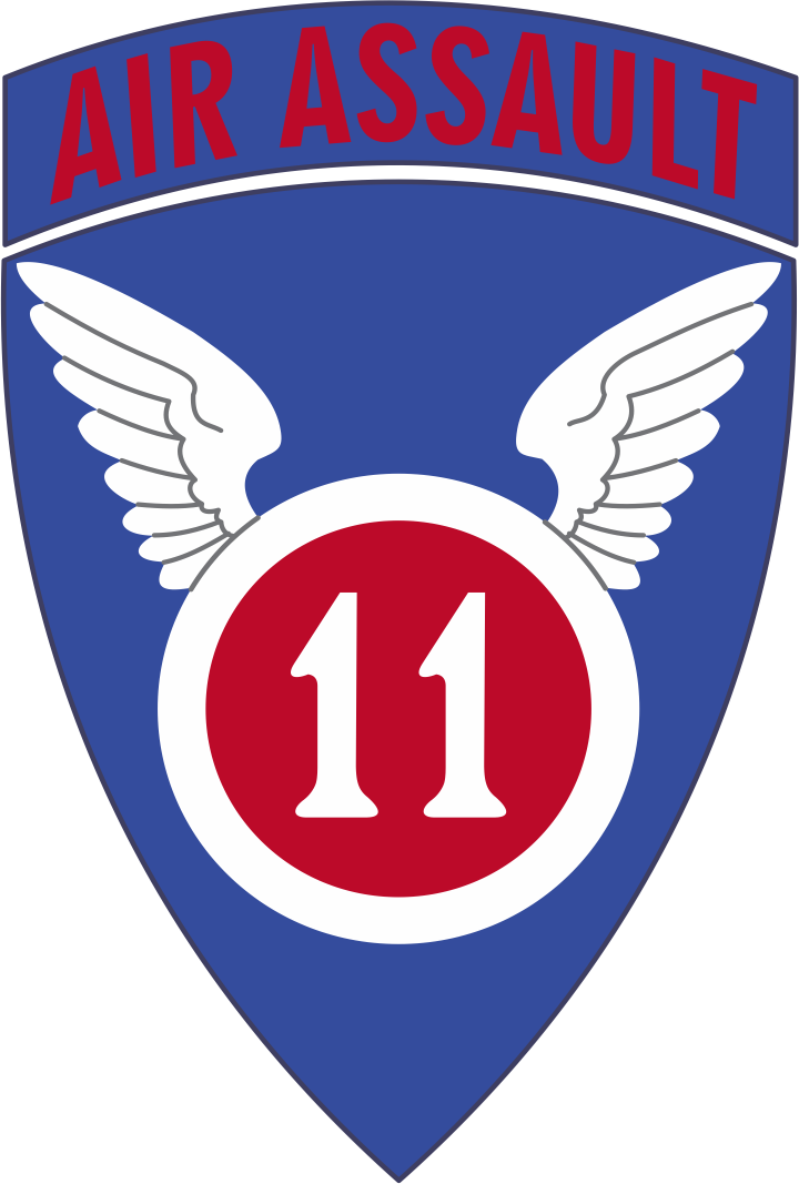 11th Air Assault Division, shoulder sleeve insignia.